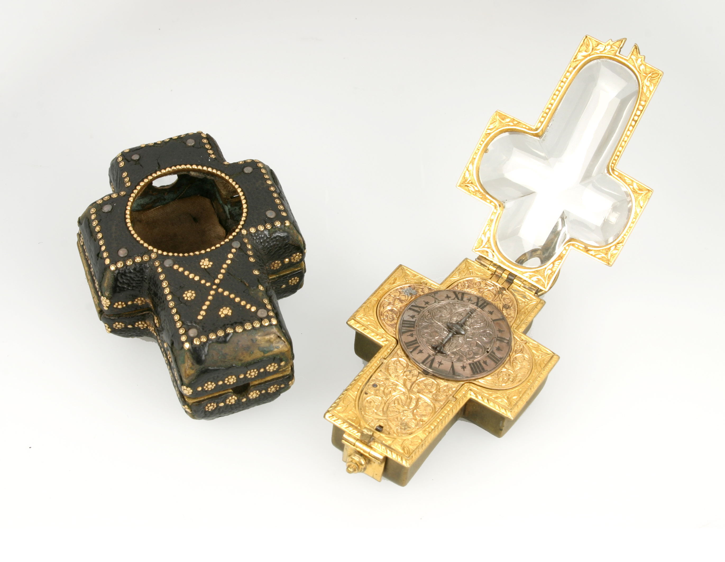 Appendix clock, marks Charles Bobinet, Paris/France around 1650. Place: Ford cheek/Germany. Picture: K0459 - Appendix clock in crucifix form with case.